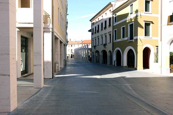 Piazza luzzatti, Motta di Livenza